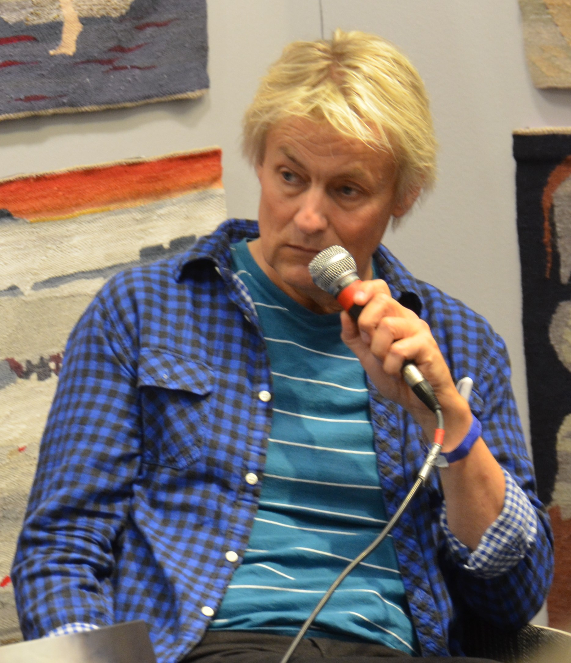 Lars Lerin